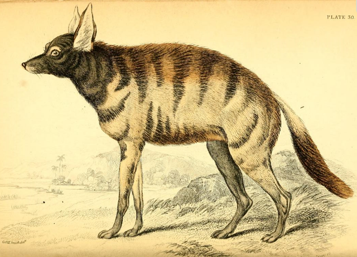 Engraving of an aardwolf by Felix de Azara